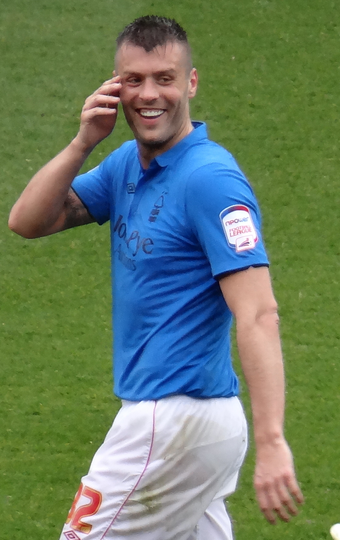 Elliott Ward playing for Nottingham Forest.